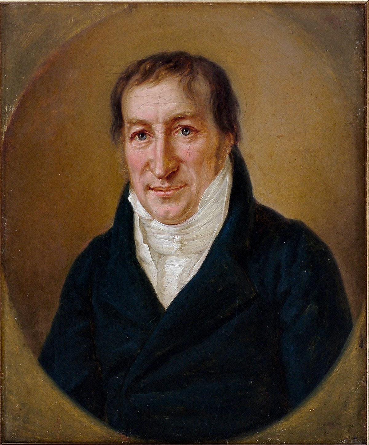 Christian Zais (1770–1820)